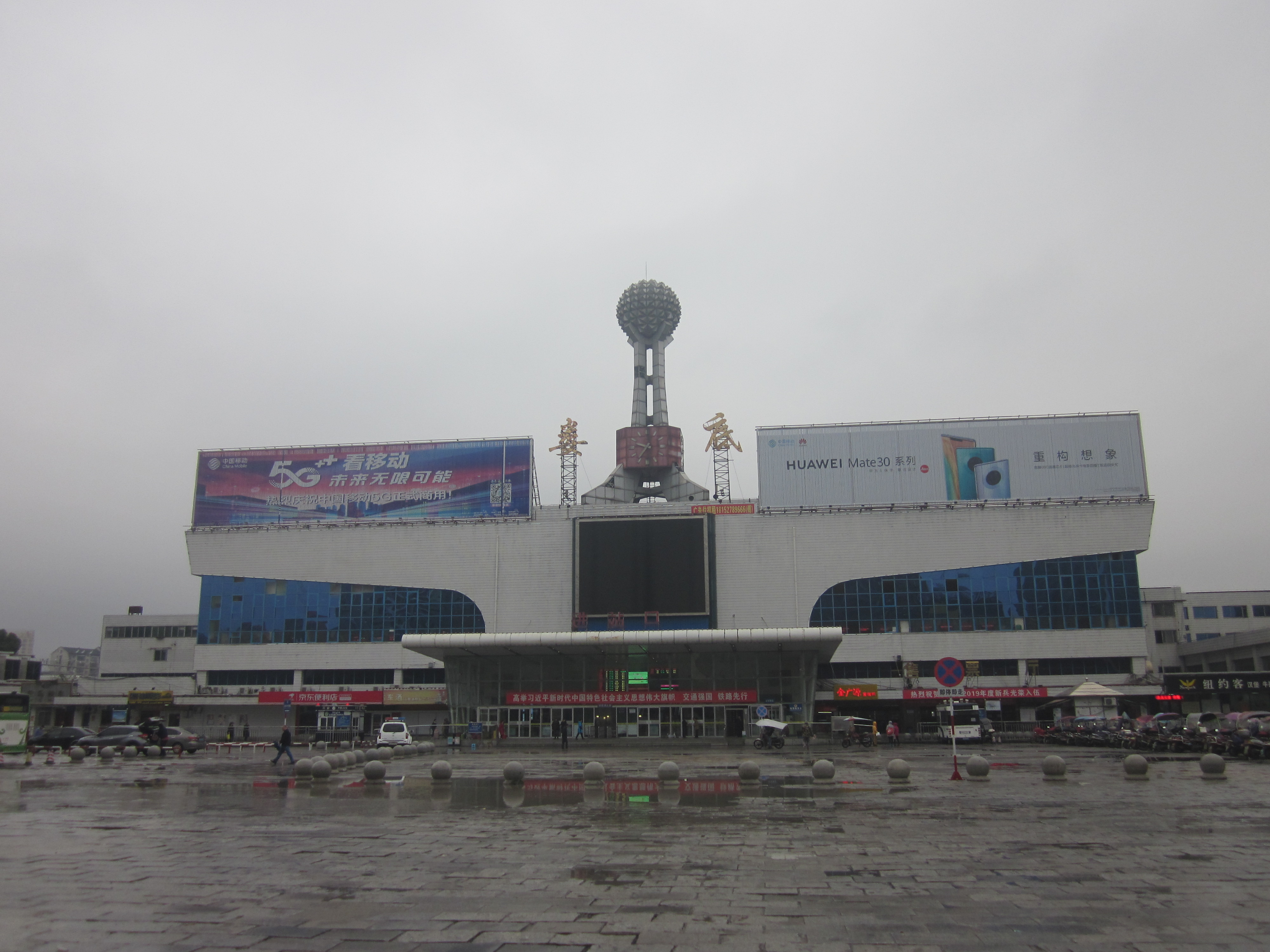 The Loudi railway station in Loudi, Hunan, China, on 19 December 2019.